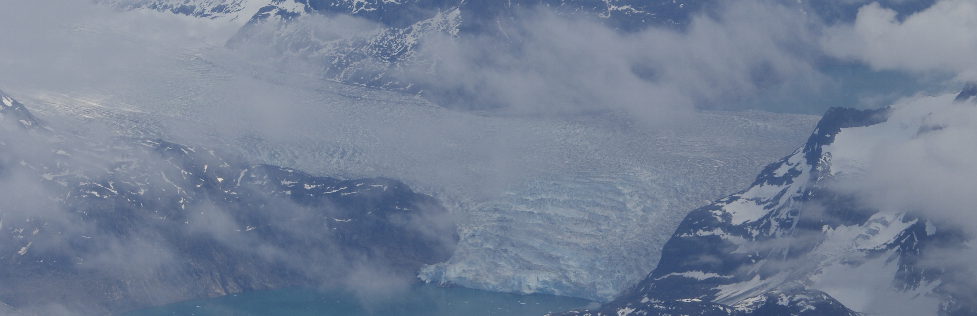 Sermitsiaq Glacier in central-western Greenland. Photographed from the Air Greenland de Havilland Canada Dash-7 ""Sululik"" during the Sisimiut-Nuuk flight.